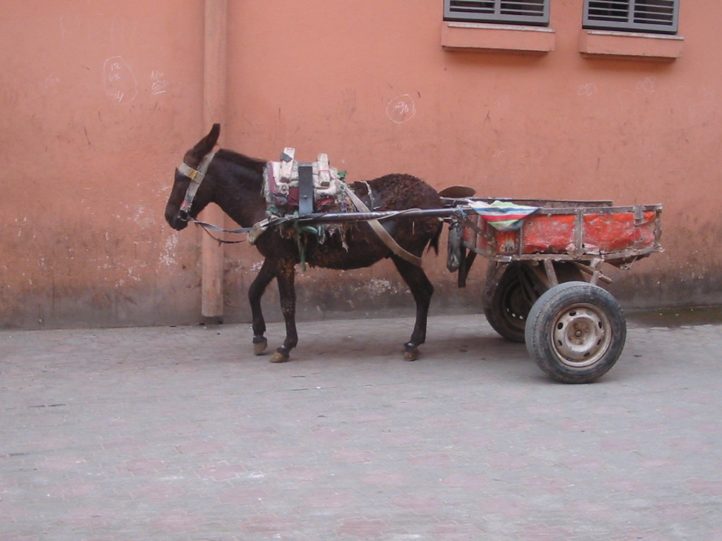 Donkey as a working animal in Morocco Africa Walon: Ågne ki saetche ene tcherete å Marok